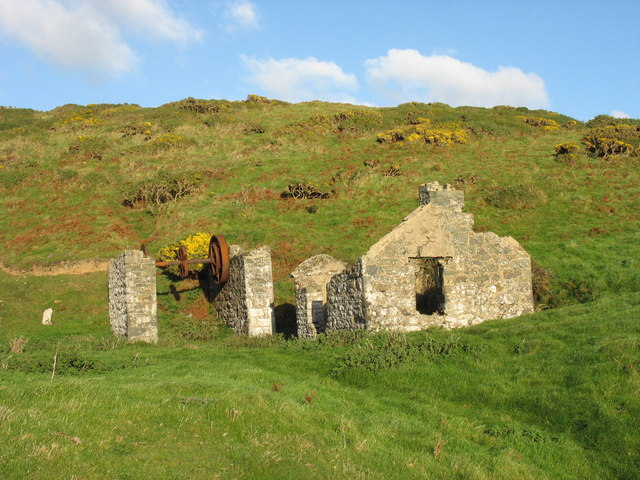 The ruins of the drum house and adjoining weigh-machine house at Nant y Gadwen These were located next to the marshalling yard and at the top of the final incline leading to the Porth Ysgo pier. Two inclines fed down from the end of the Benallt Tramway above to this level. One of these can be seen clearly behind the drum house. The drum house at the top of it has been demolished.